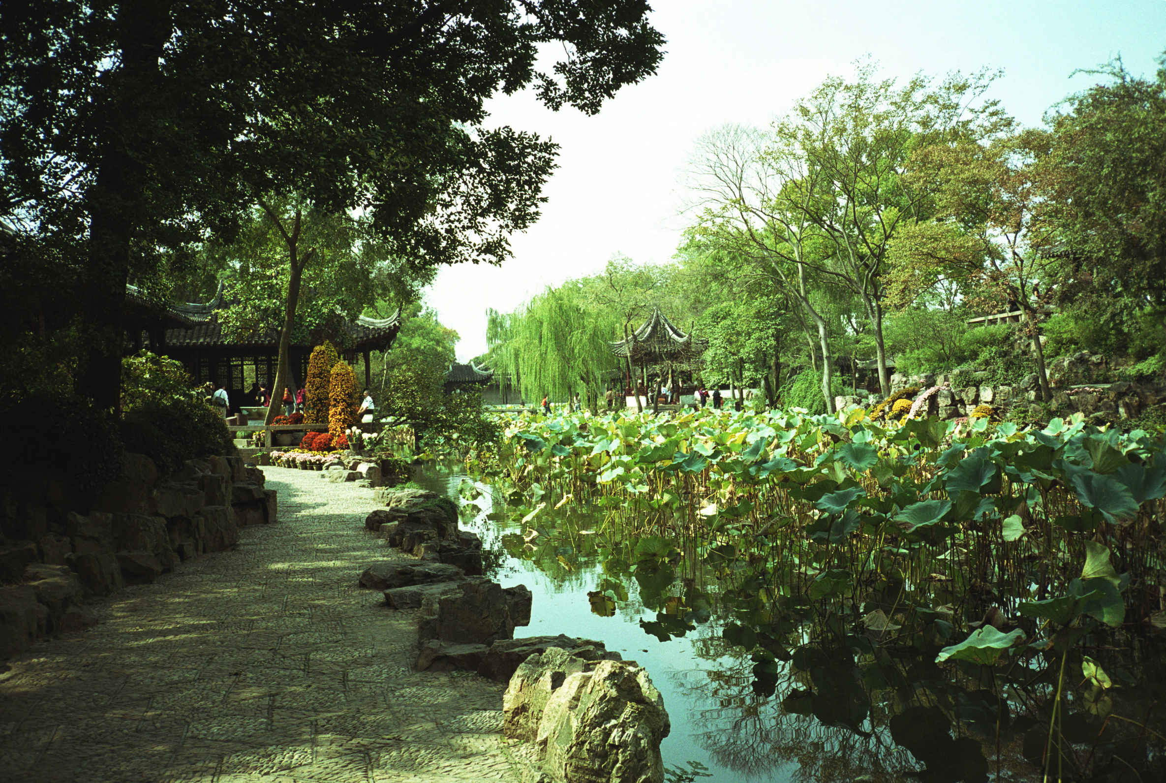 A lotus pond in The Lion Grove Garden, Suzhou荷花池塘